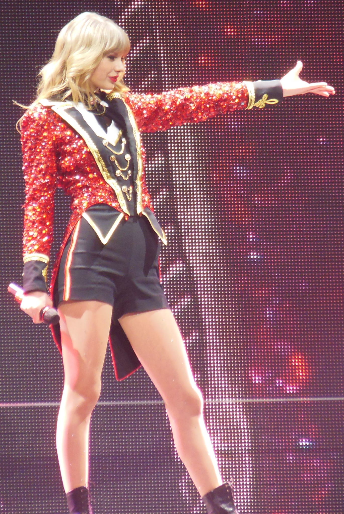 Taylor Swift RED Tour